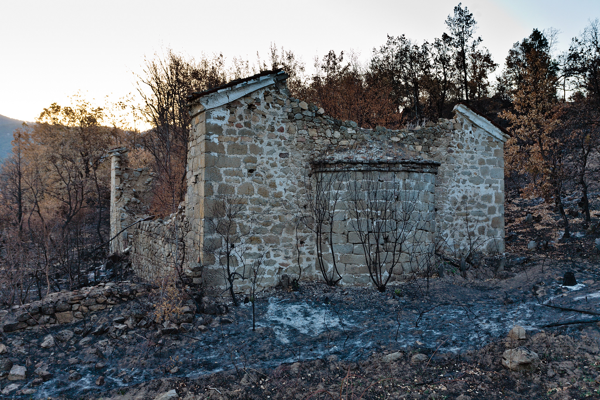 The "Sv. Ilia" church. Located in the now-abandoned hamlet of Teovci, Mechkul, Blagoevgrad district, Bulgaria